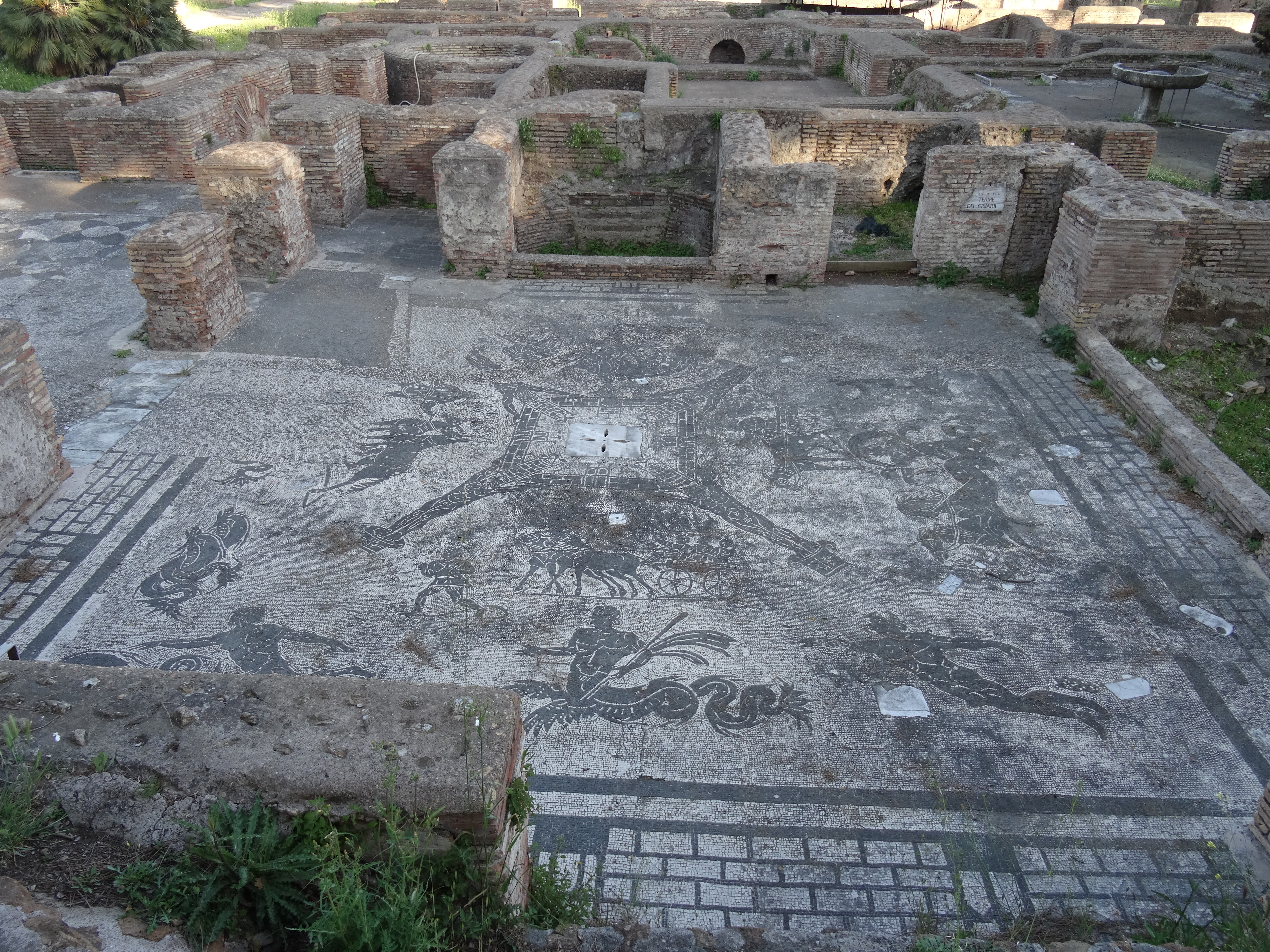 Ostia Antica